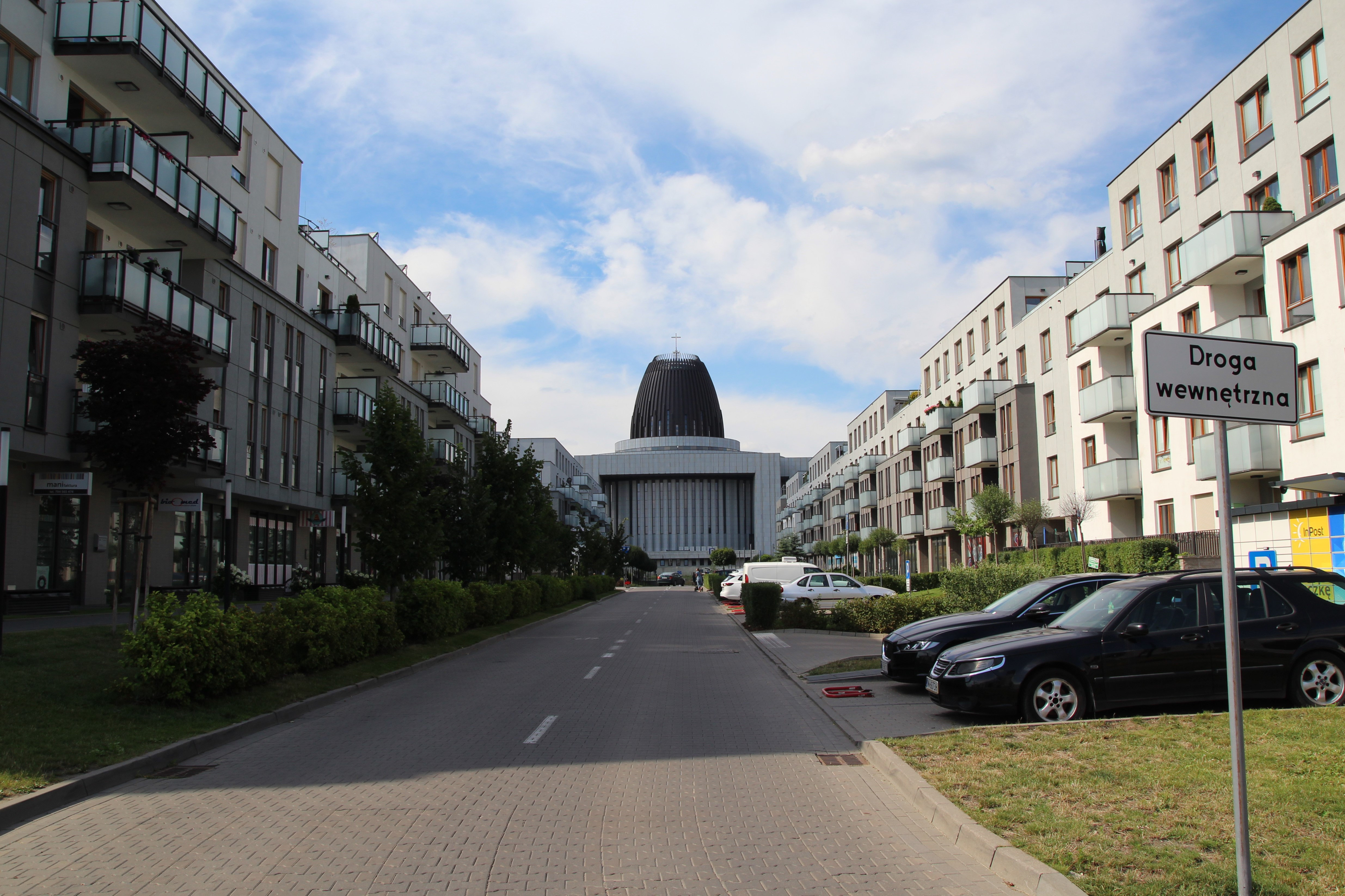 Branickiego, view to temple